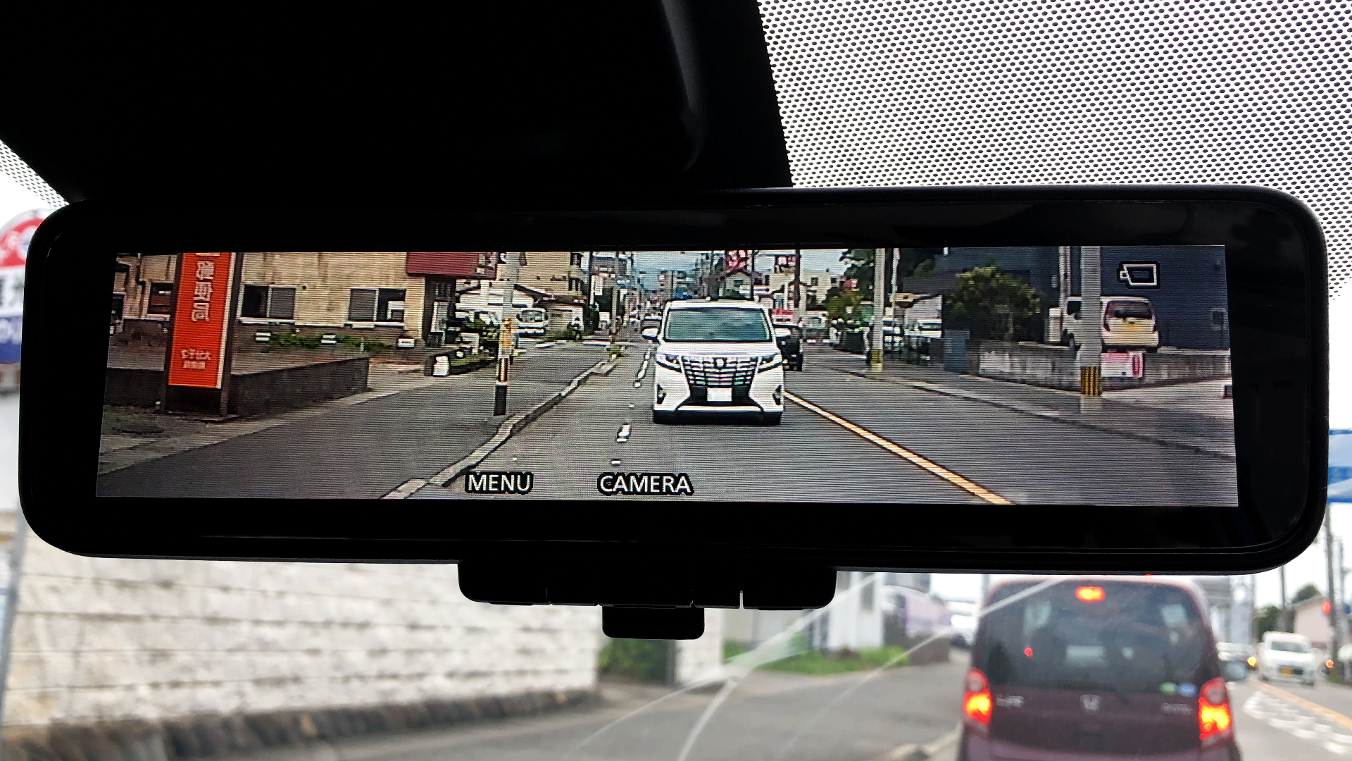 Nissan Note e-POWER MEDALIST SMART ROOM MIRROR.Photographed in Japan.